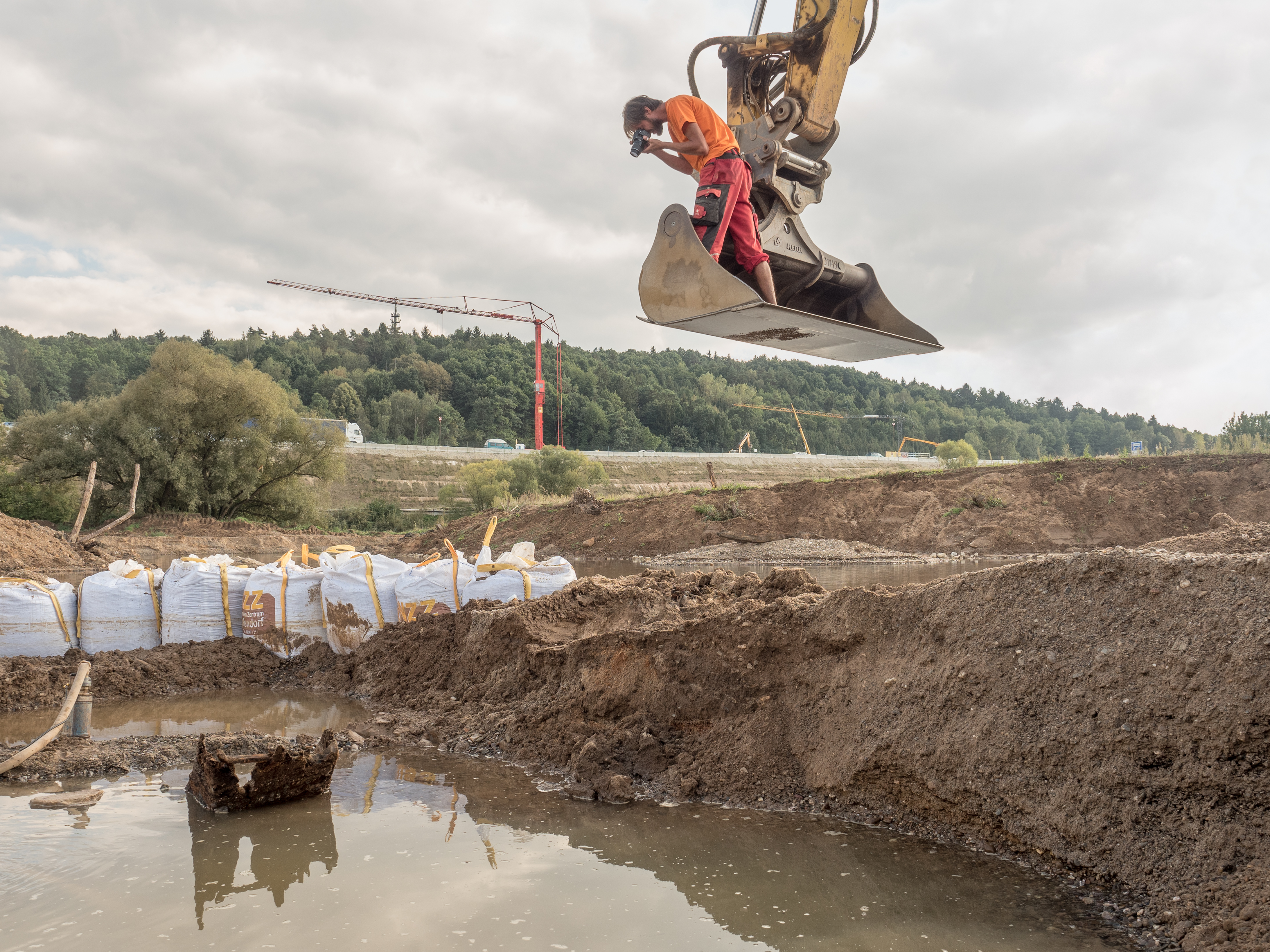 Inventory of an archaeoligic find during the relocation of the Main River near Ebing as part of the construction of the high-speed rail link between Nuremberg and Erfurt. Here a dugout and a bridge were uncovered and documented. The terrain was then, as planned, formed into a natural river landscape because conservation would have been too costly.